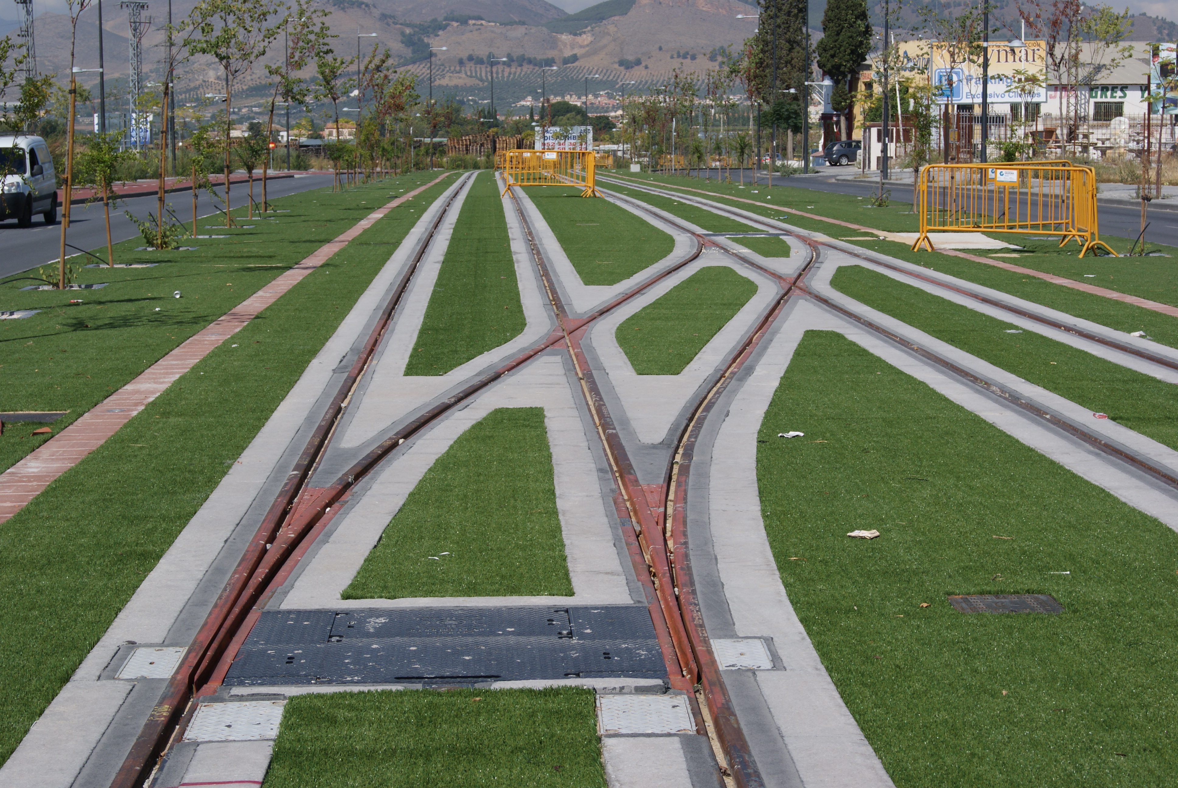 Rail switch at Metropolitano de Granada (Spain) near Vicuña station